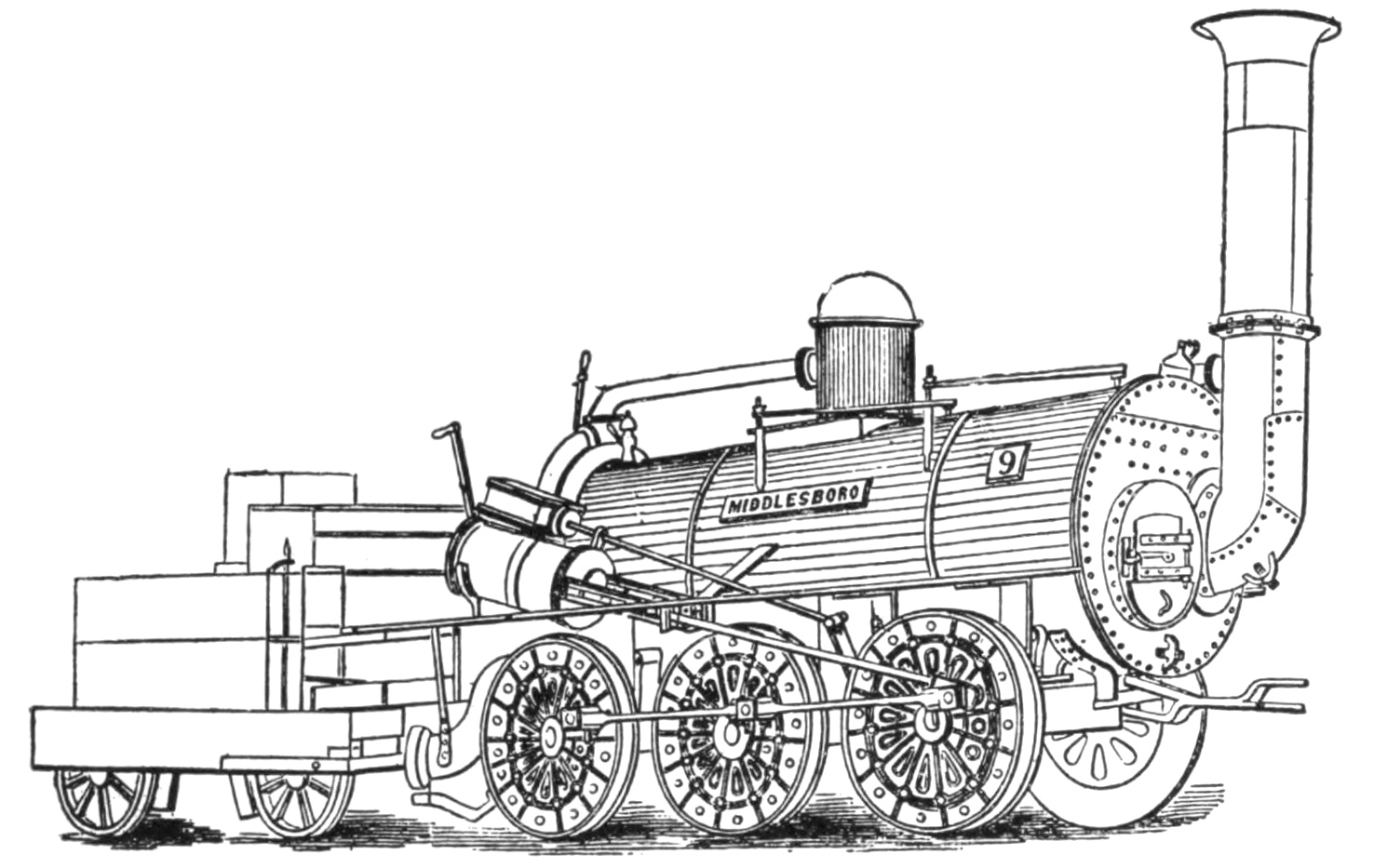 "Middlesbrough" locomotive built by William Lister, c.1838/9 for Stockton and Darlington Railway